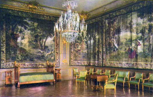 Postcard, Large bedroom, Guest Apartments